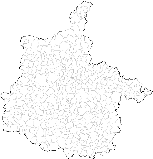 Map of municipalities of Ardennes